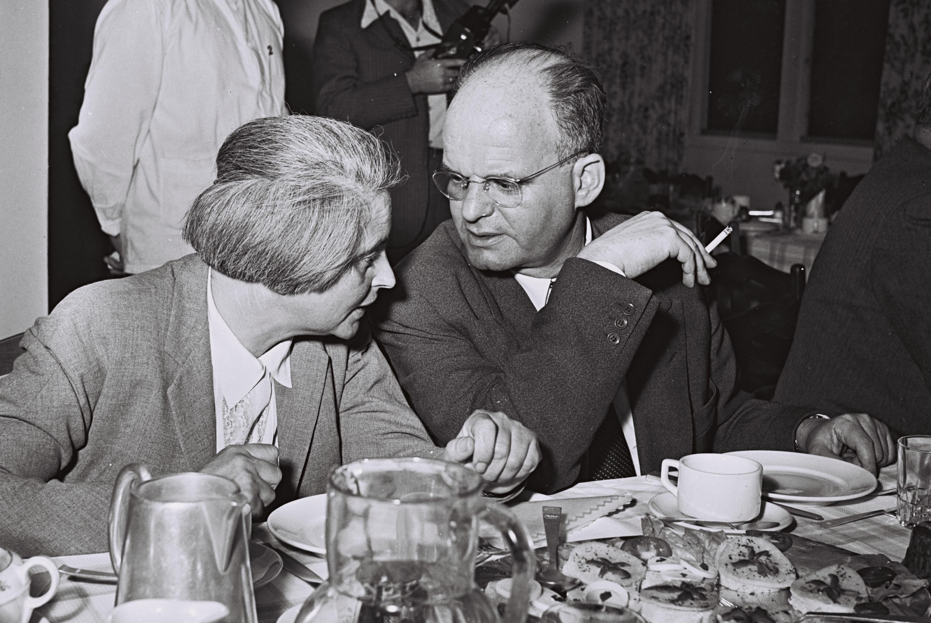 Dr. Giora Josephstal, treasuer of jewish agency, and wife Senta.